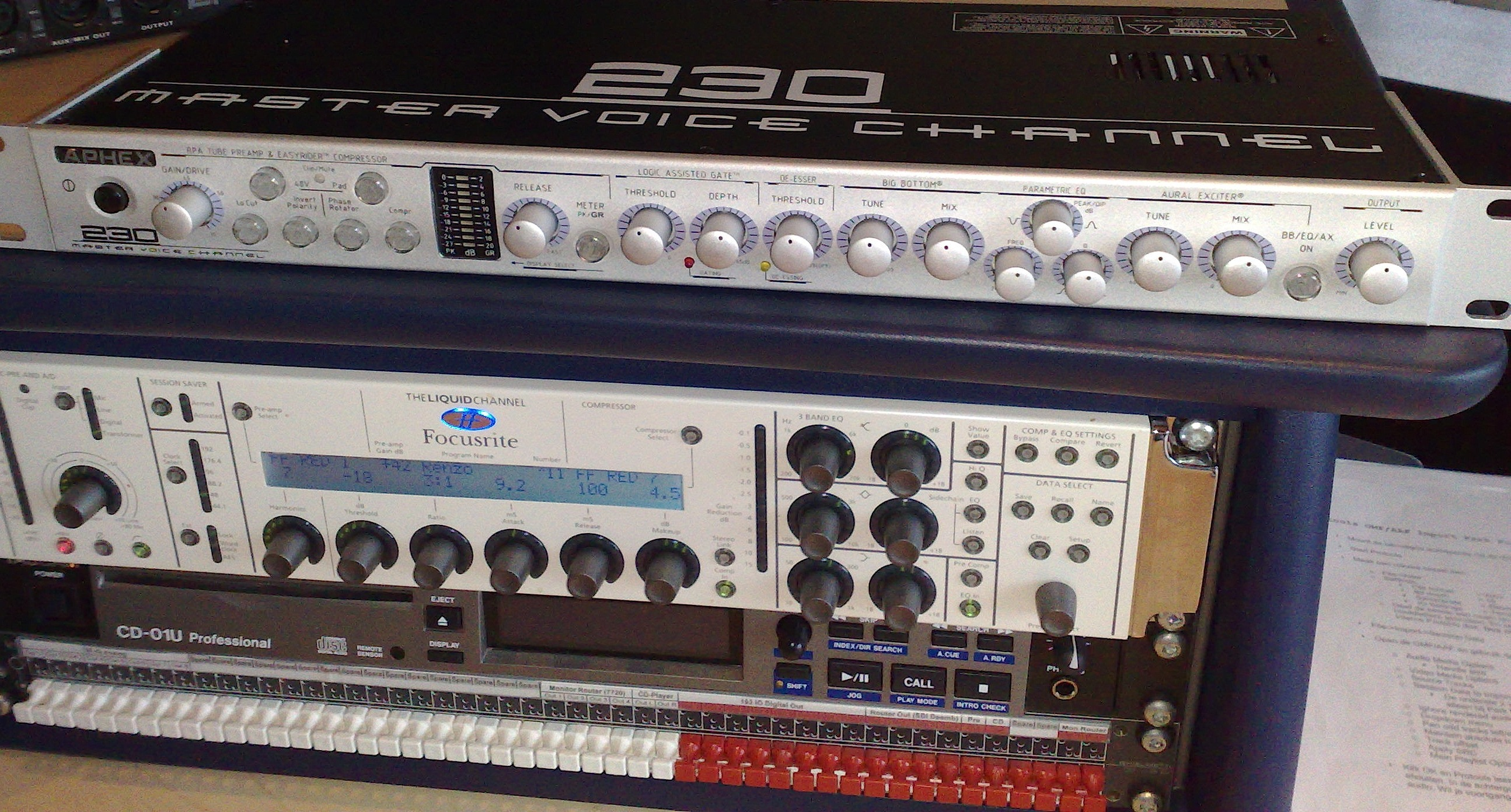 Aphex 230 and Focusrite Liquid Channel Aphex 230 Master Voice Channel Processor Focusrite Liquid Channel Revolutionary Liquid Channel Strip TASCAM CD-01U Professional 1U CD Player Patch bay